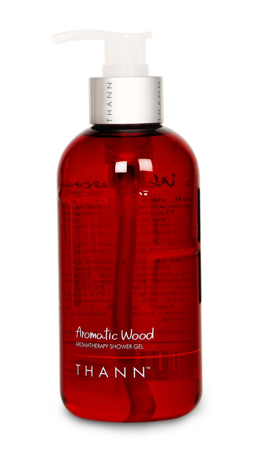 THANN Aromatic Wood Shower Gel_New